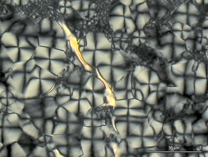 Spherulite in Polyamide 6.6 (microtome section 10µm), crack formation